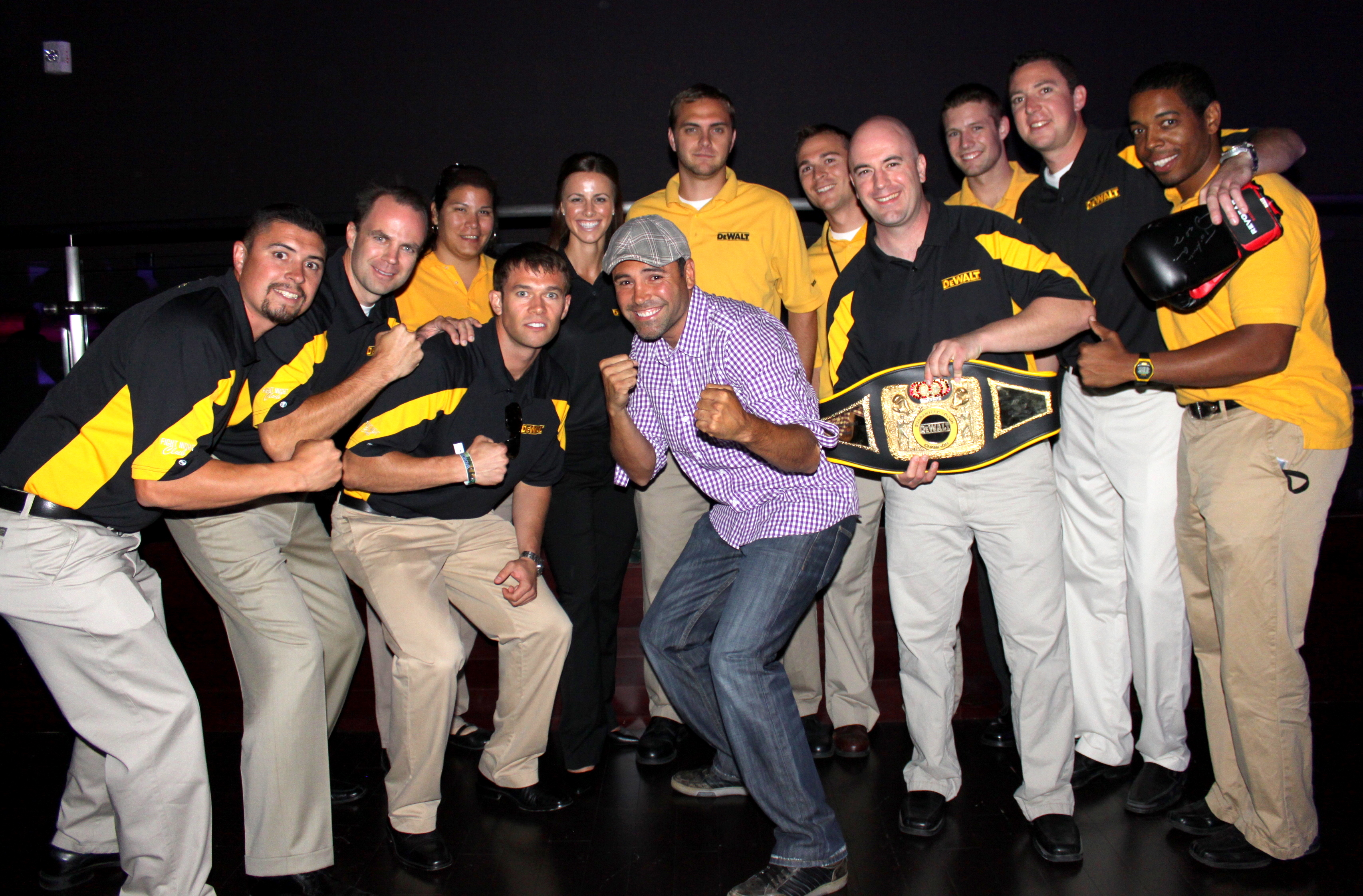 Oscar De La Hoya with the DeWalt Home Depot Marketing Team at Fight Night Club event sponsored by DeWalt Tools, at the Club Nokia in Los Angeles, California, United States.